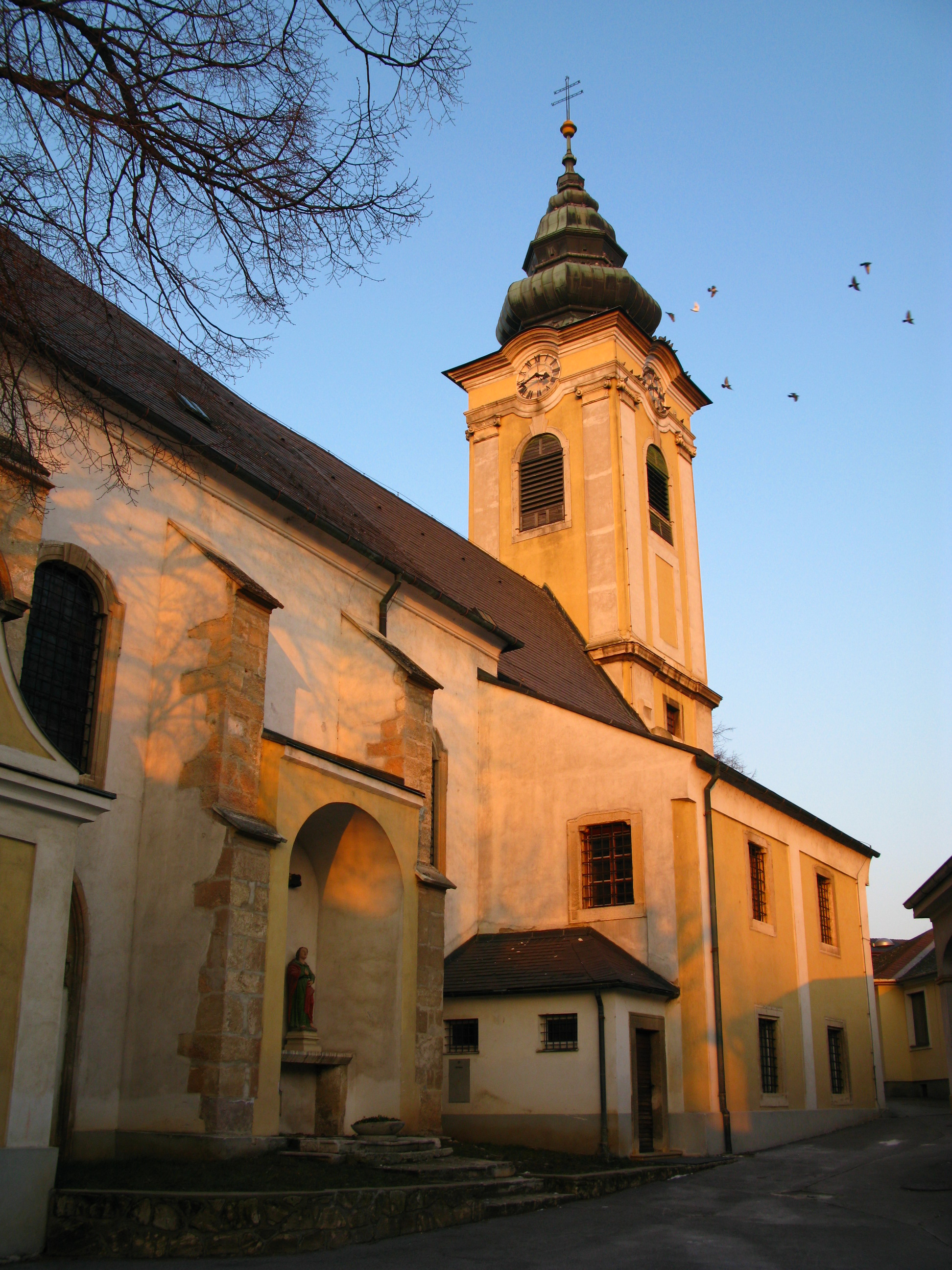 Parish church of Neusiedl near Lake Neusiedl / Burgenland / Austria / EU. Church in the winter evening light. In the blue sky birds circling the tower.